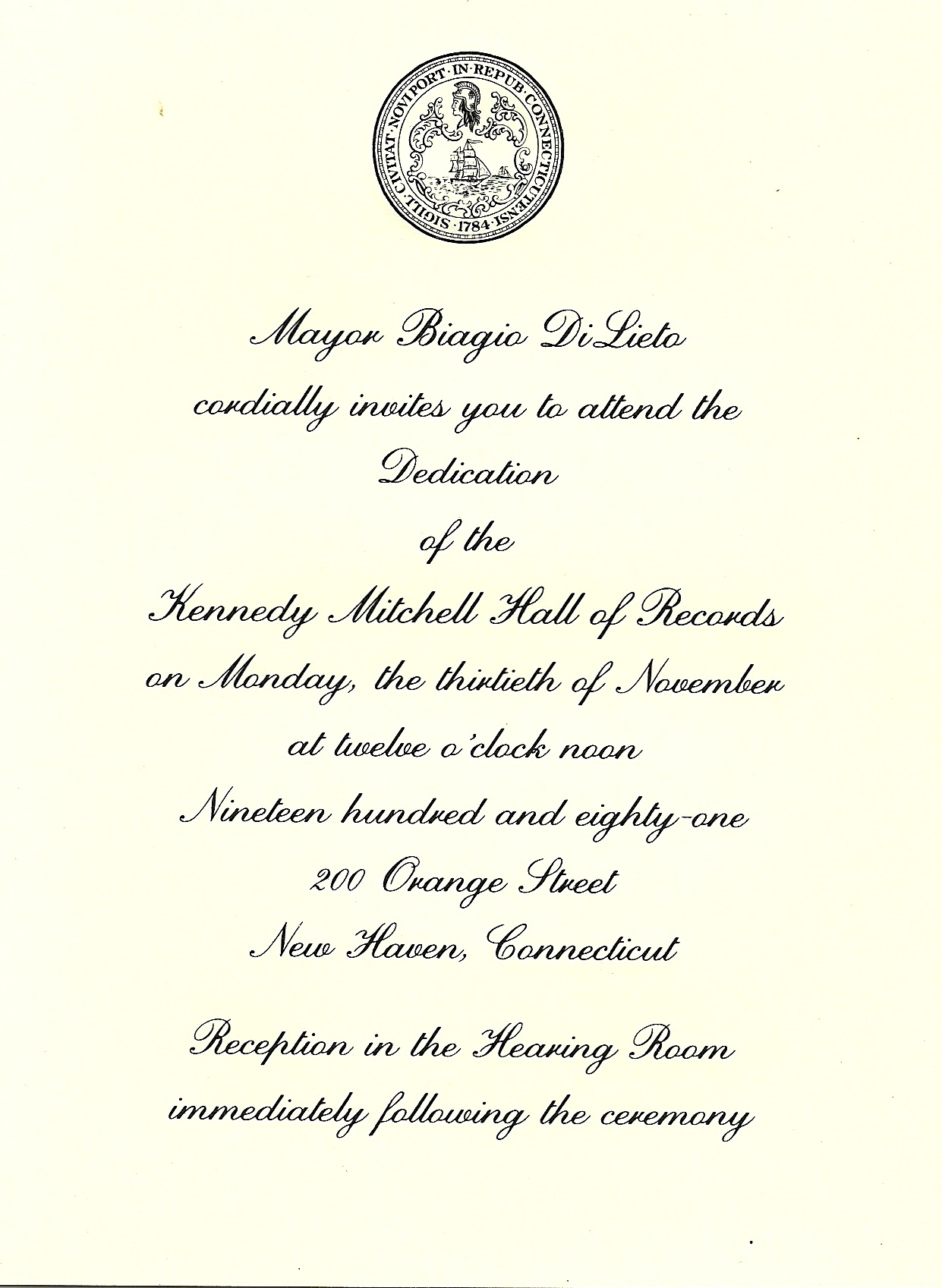 Dedication document for New Haven Hall of Records